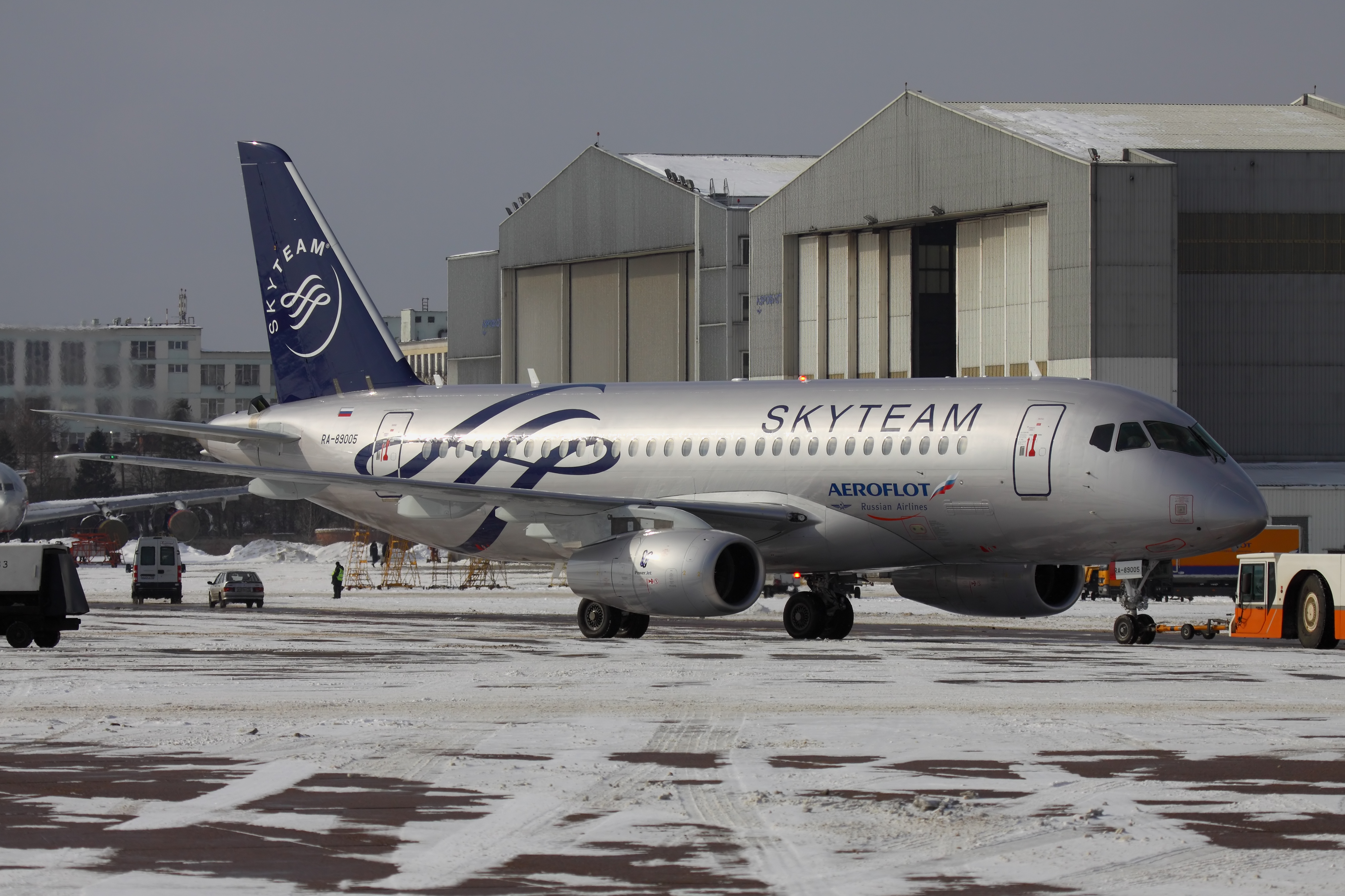 Sukhoi Superjet 100 of Aeroflot - Russian Airlines wearing SkyTeam colors at Moscow Sheremetyevo airport after arrival from Komsomolsk-na-Amure.